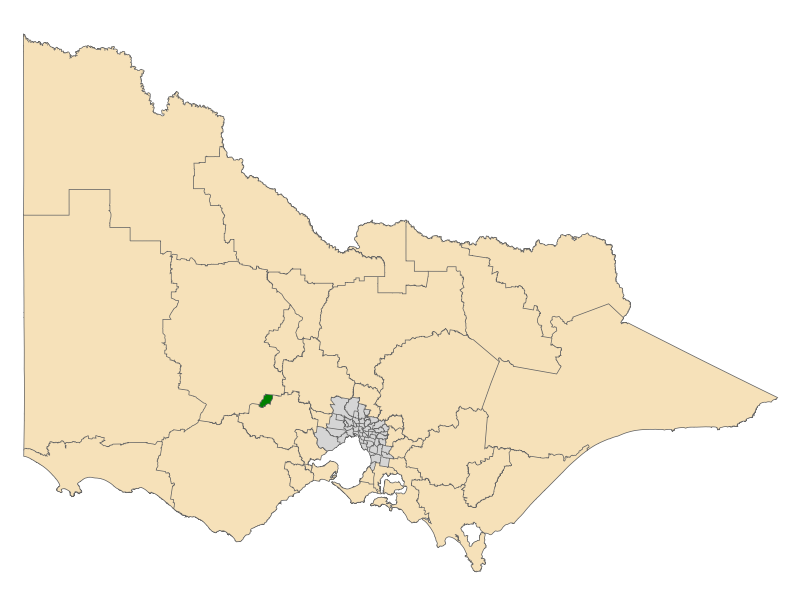 Location of the Electoral District of Wendouree (dark green) in the state of Victoria, Australia. These boundaries were used for the Victorian state election on 29 November 2014.